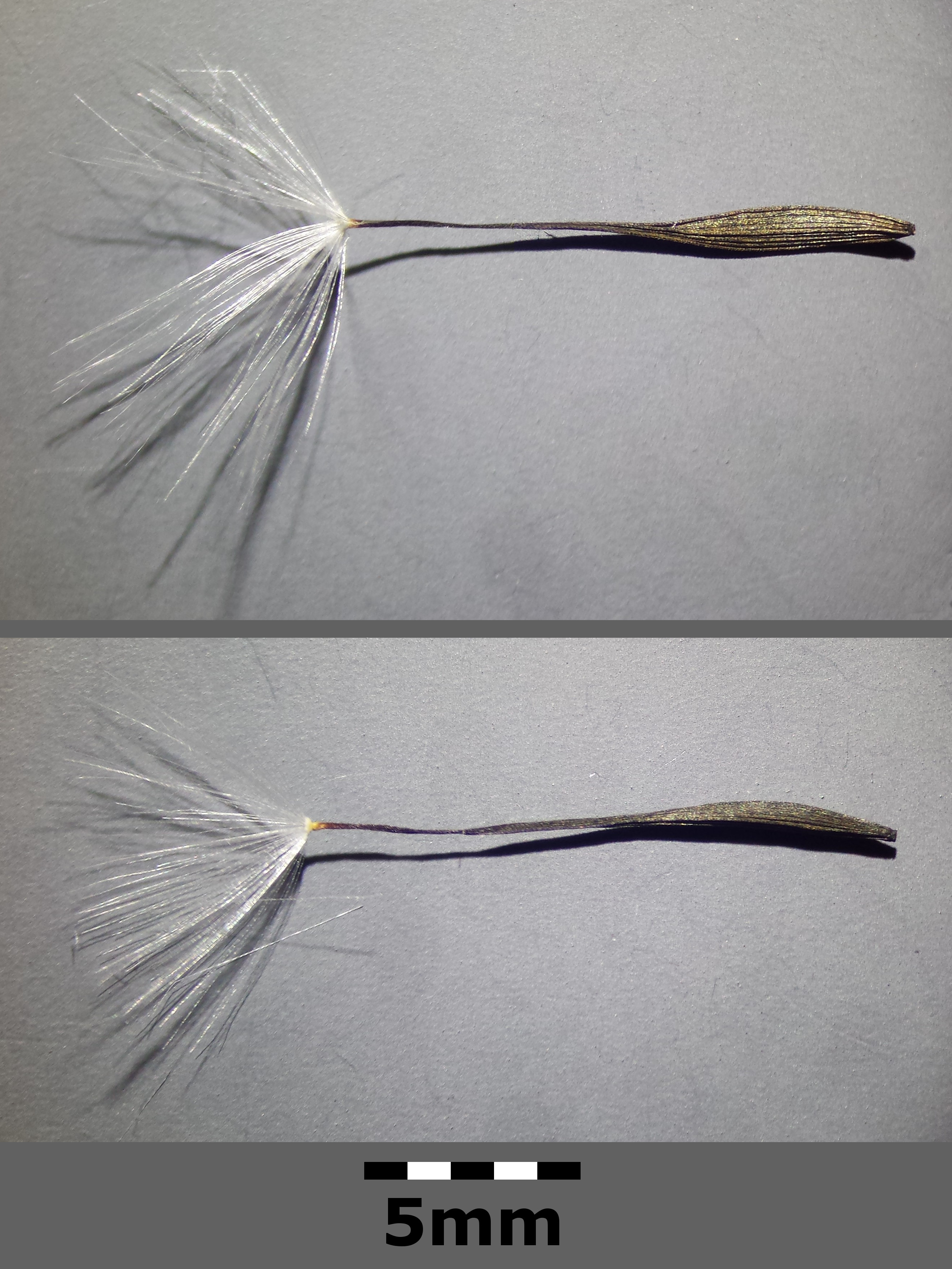 Achenes Taxonym: Lactuca viminea (ss Fischer et al. EfÖLS 2008 ISBN 978-3-85474-187-9) Location: Steinbacher Heide-Steinbruch near Oberleis, district Korneuburg, Lower Austria - ca. 430 m a.s.l. Habitat: rock steppe (lime stone)